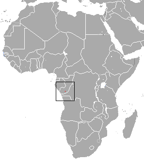 Adam's Horseshoe Bat (Rhinolophus adami) range